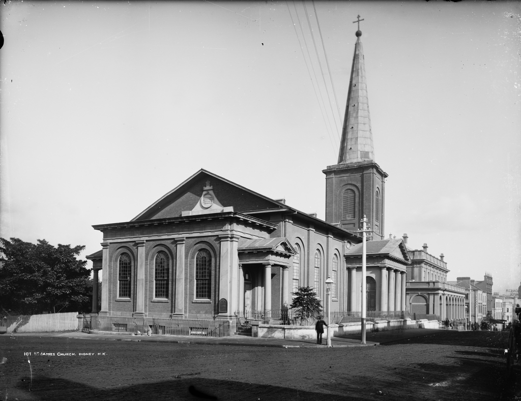 Format: Glass plate negative. Rights Info: Public Domain Repository: Tyrrell Photographic Collection, Powerhouse Museum Part Of: Powerhouse Museum Collection General information about the Powerhouse Museum Collection is available at Persistent URL: [1] Acquisition credit line: Gift of Australian Consolidated Press under the Taxation Incentives for the Arts Scheme, 1985